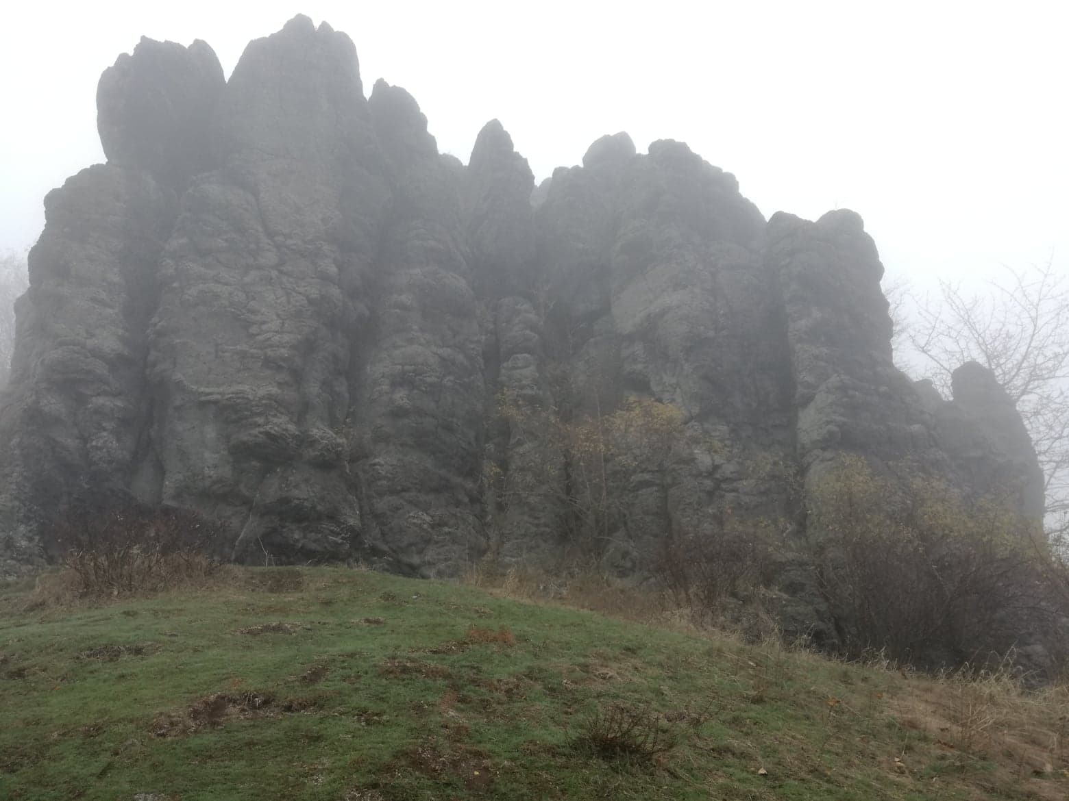 basalt rock